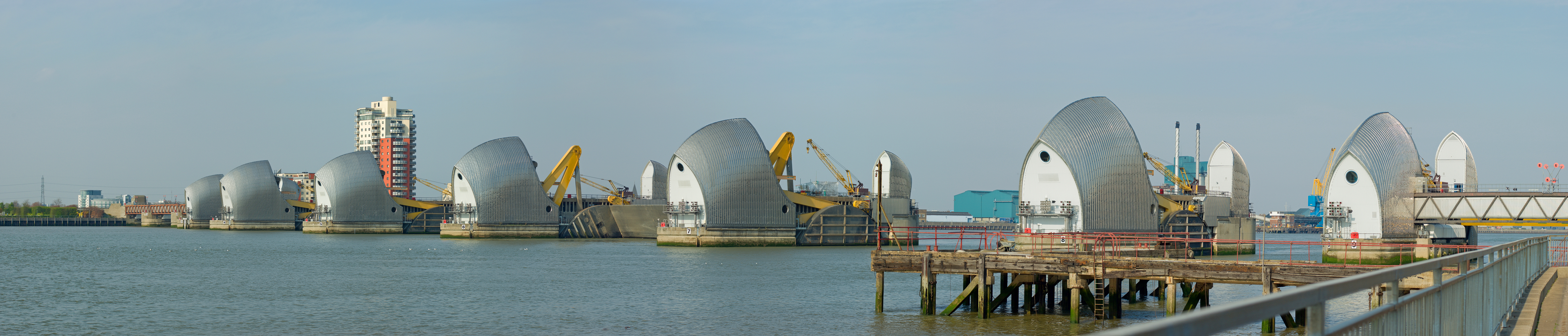 Thames Barrier, Woolwich, London, United Kingdom. Viewed from the south side of the river. Details: ISO: 100 Modifications: Crop, shadow/highlight, deconvolution. Photographer: Bill Bertram